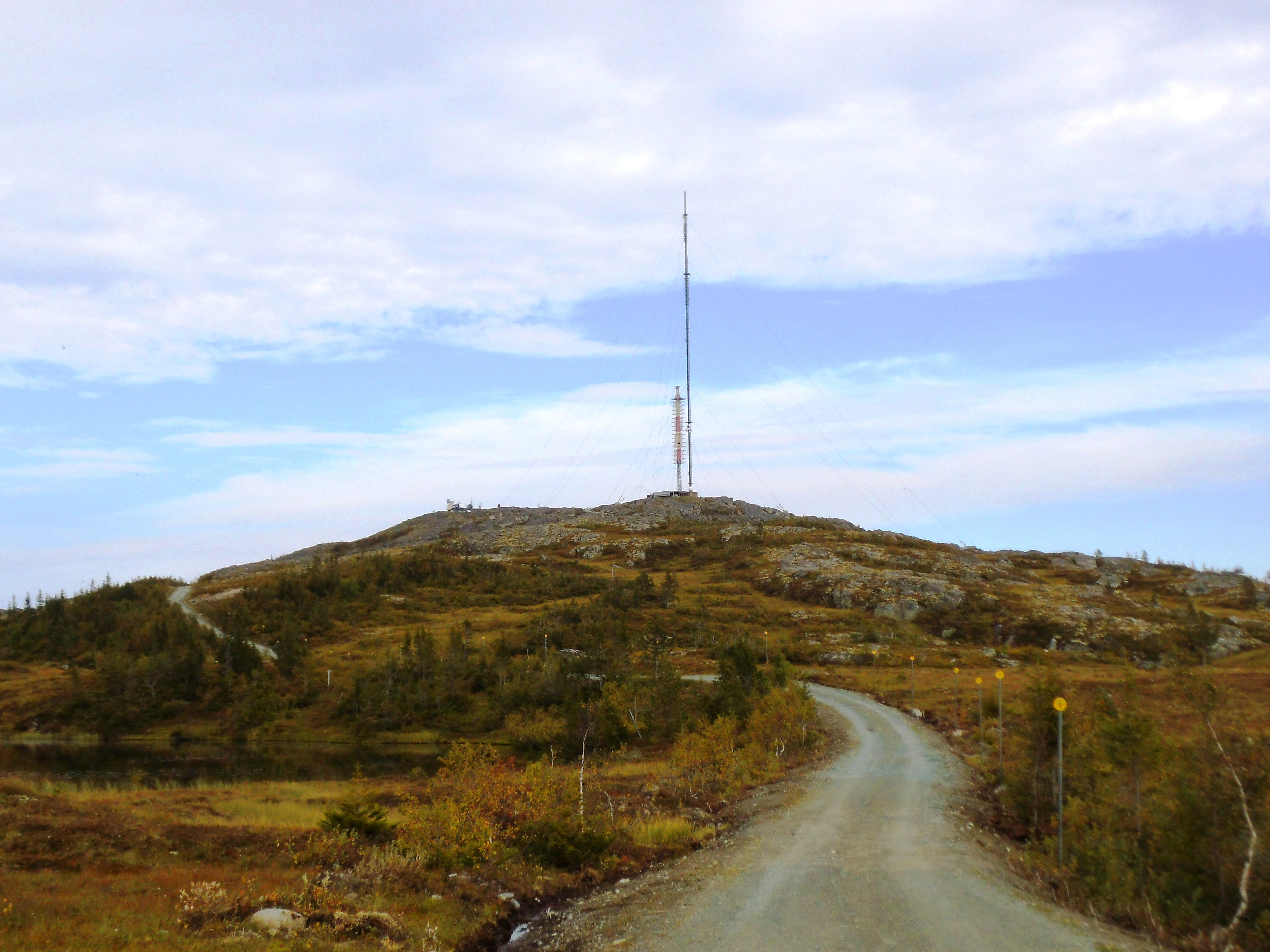 The TV-tower on Vassfjellet, a mountain in Sør-Trøndelag, Norway. The short antenna were built in 1961 for analog television. It was disconnected in 2009 and demolished in 2013. The long antenna were made for digital terrestrial television. It was raised in 2007 and put into use in 2009